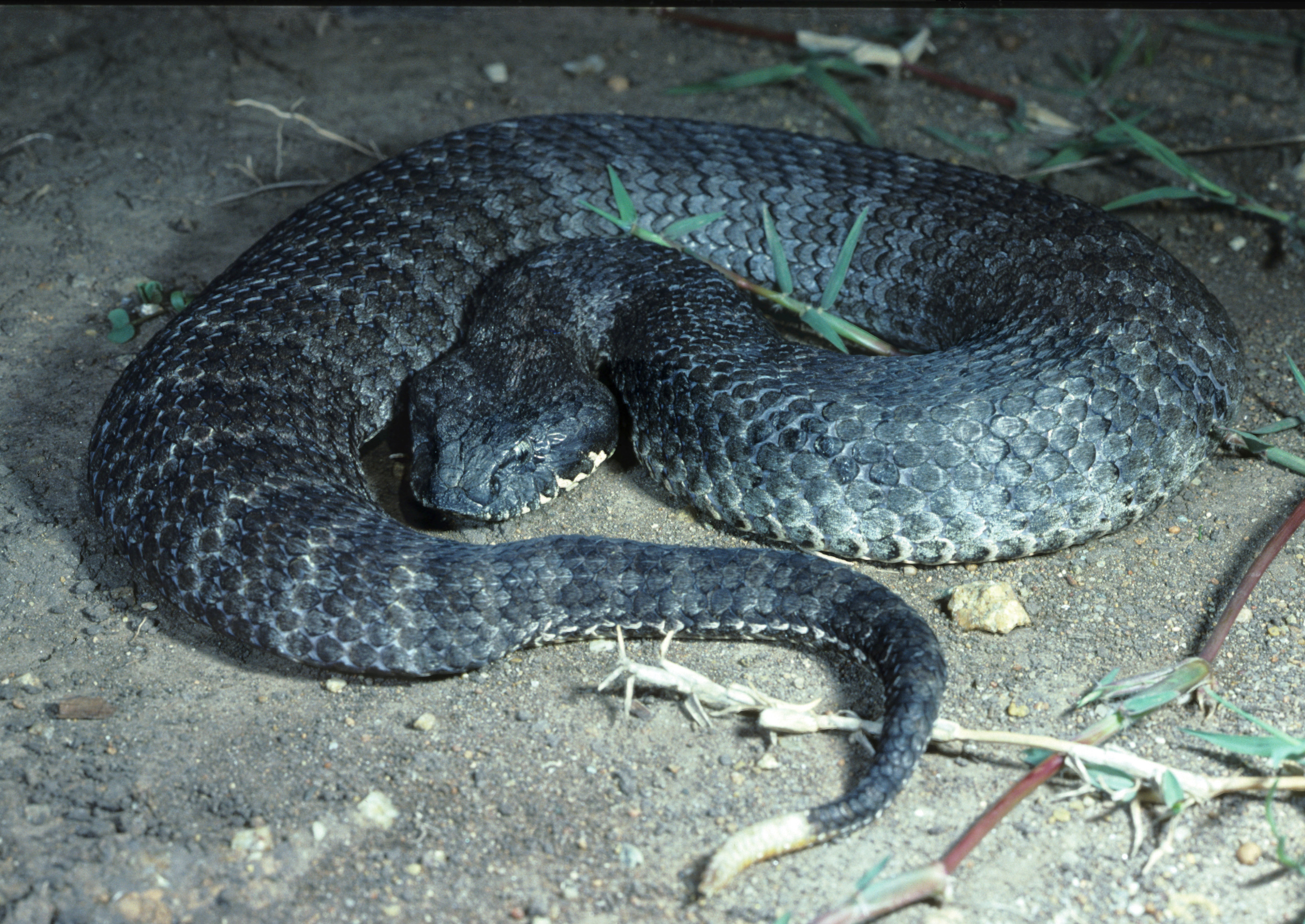 Death Adder – Acanthophis antarcticus, photographed at Springbrook, Queensland, April 1979.